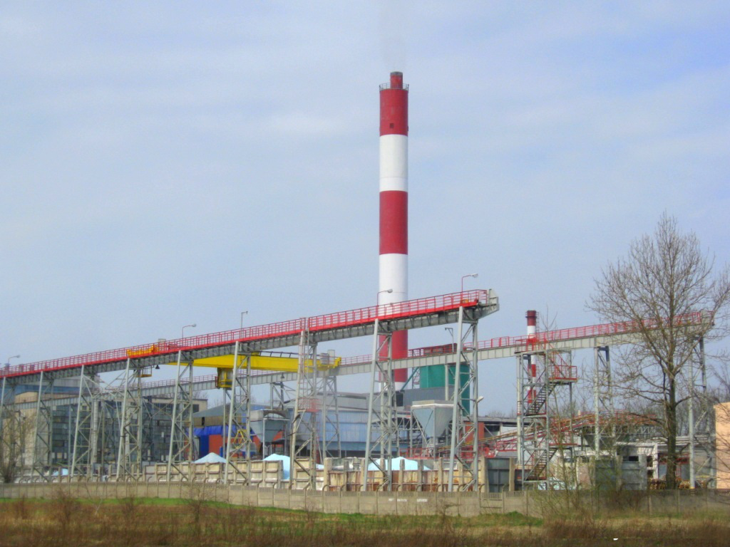 Chemical Plant "Rudniki".